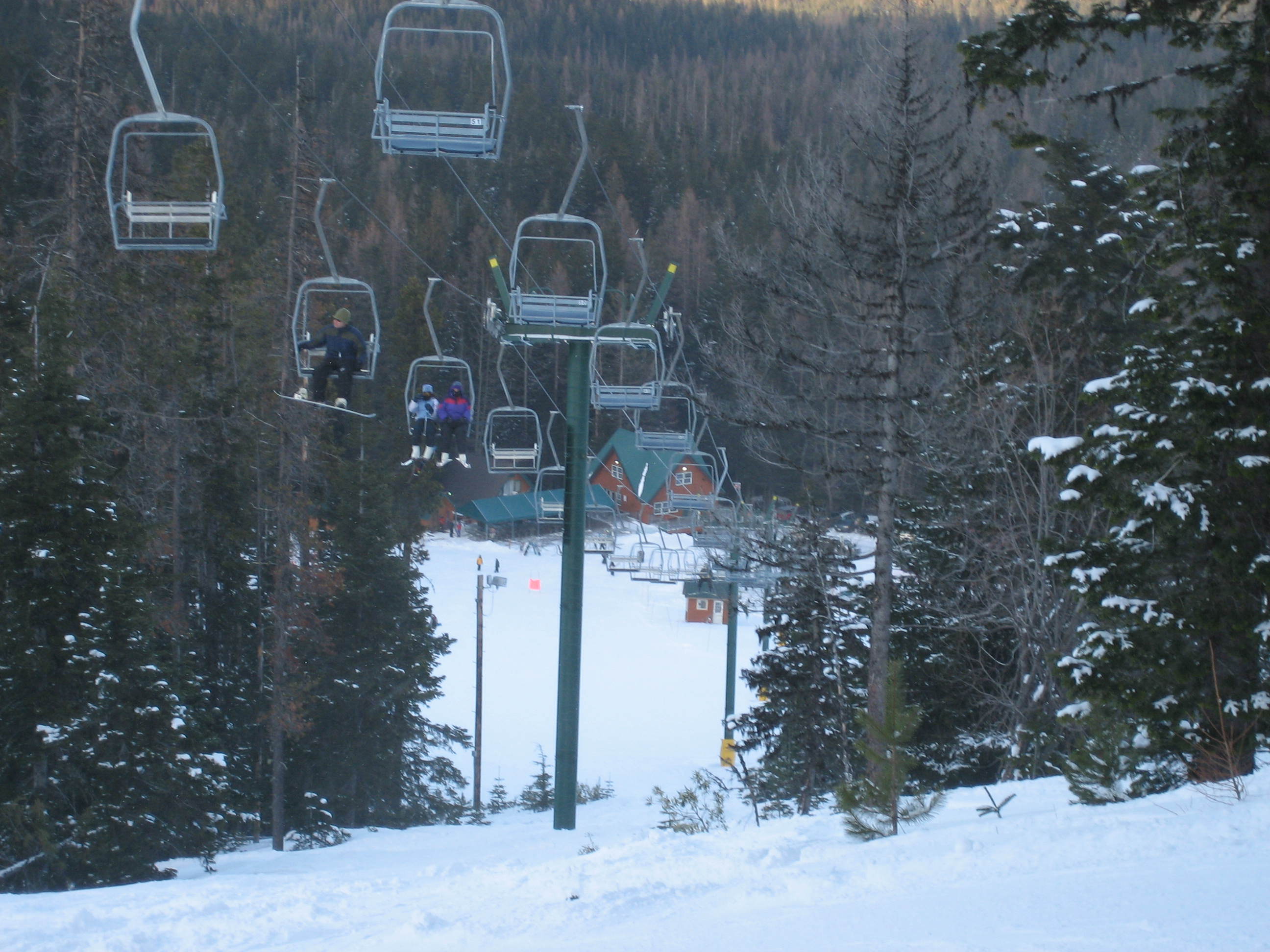 Photo of Cooper Spur Ski Area